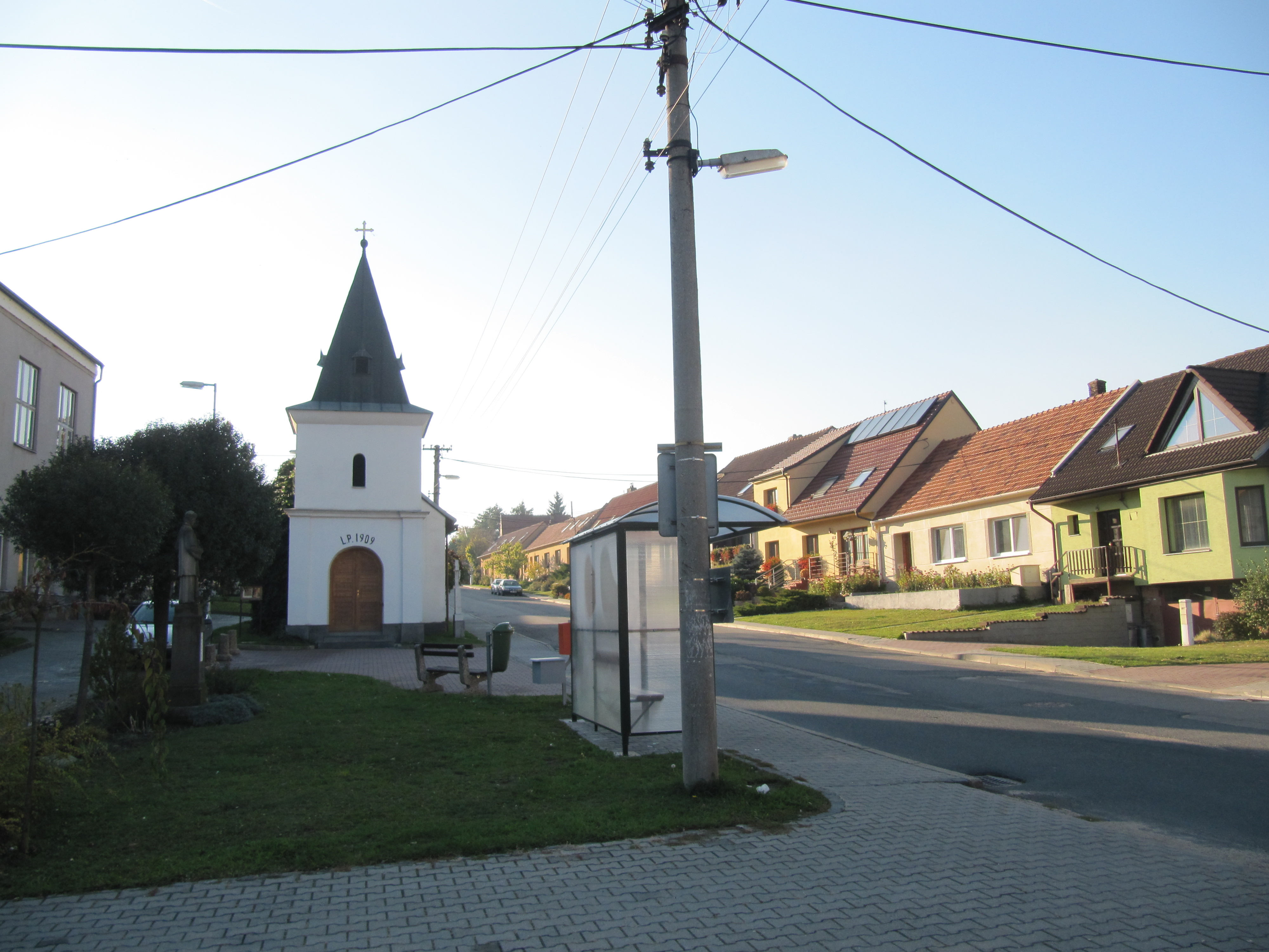 Velatice in Brno-Country District, Czech Republic. Commond and the Chapel of St. Anne from 1909.